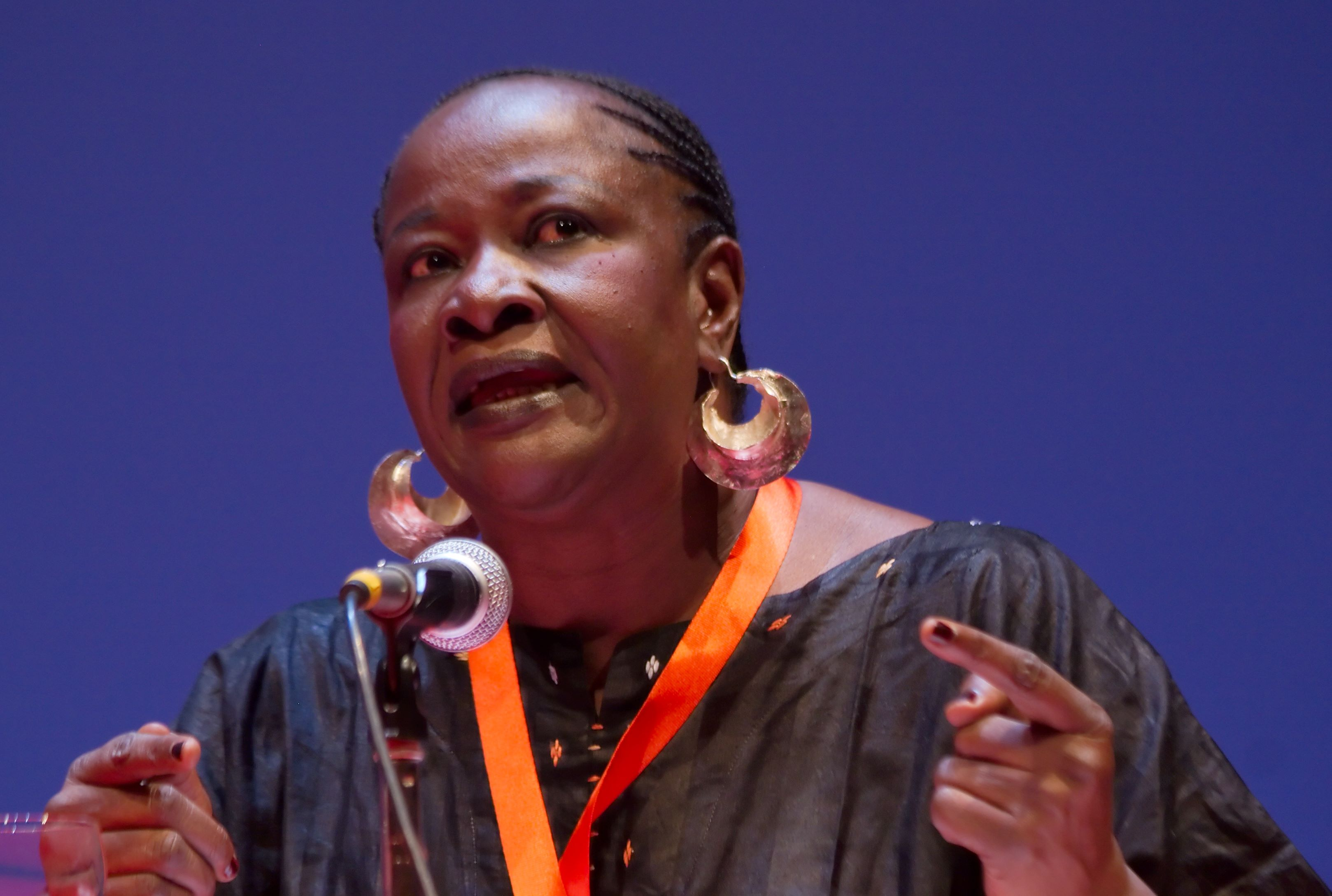 Aminata Traoré at the 2008 Libération forum in Grenoble, debating with Fadela Amara